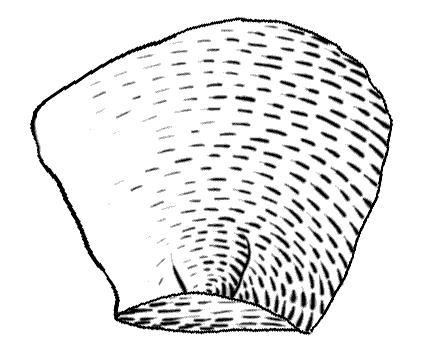 Ventral surface of a lithic flake